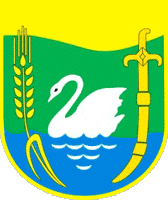 Coats of arms of Lebedinskij district (Ukraine)